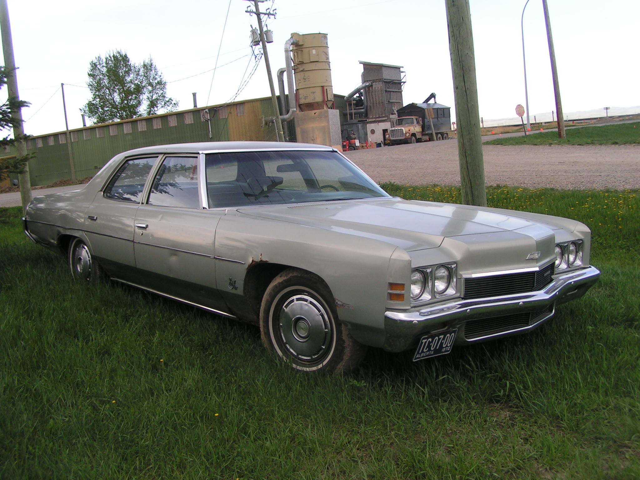 1972 Chevrolet Bel Air four door sedan